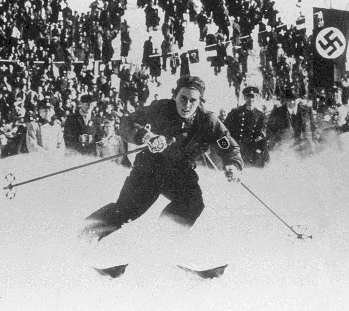 Christl Cranz of Germany in action in the Alpine Combined event during the 1936 Winter Olympic Games in Garmisch-Partenkirchen, Germany. Cranz won the gold medal.